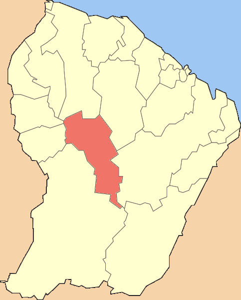 Made map myself.